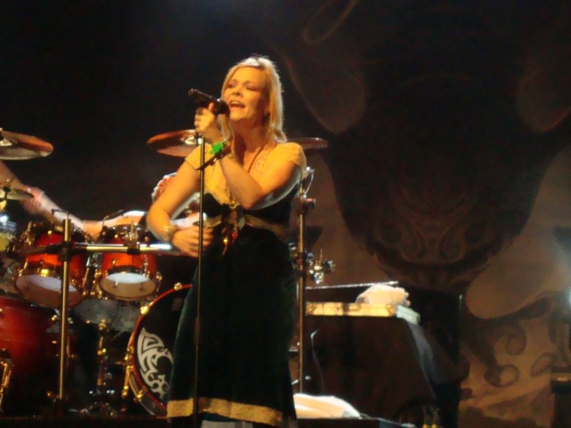 Anette perforing with Nightwish on their Dark Passion Play Word Tour